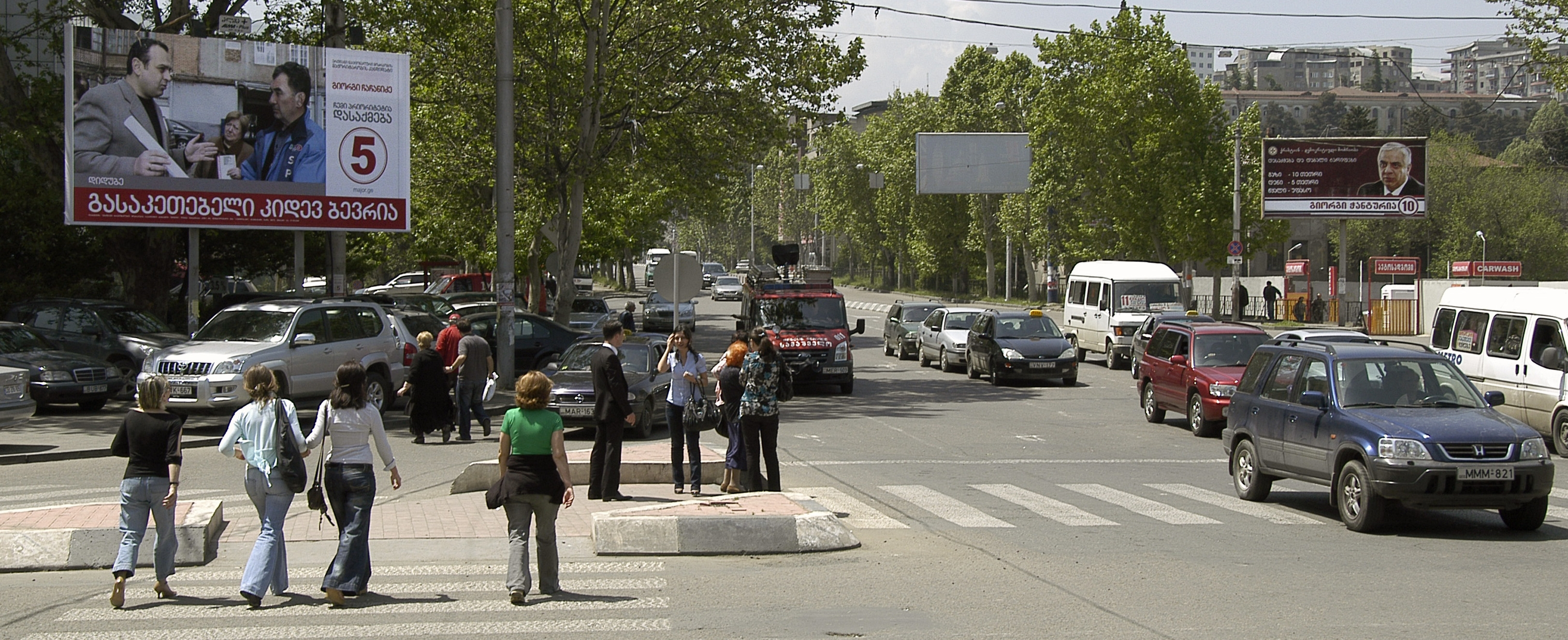 For the first time, on 30 May 2010, the Mayor of Tbilisi was directly elected by citizens